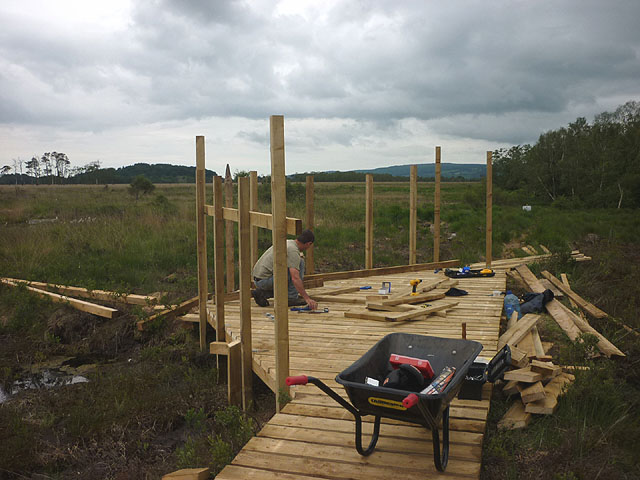 Fowlshaw Moss: work in progress in improve public access to nature reserve